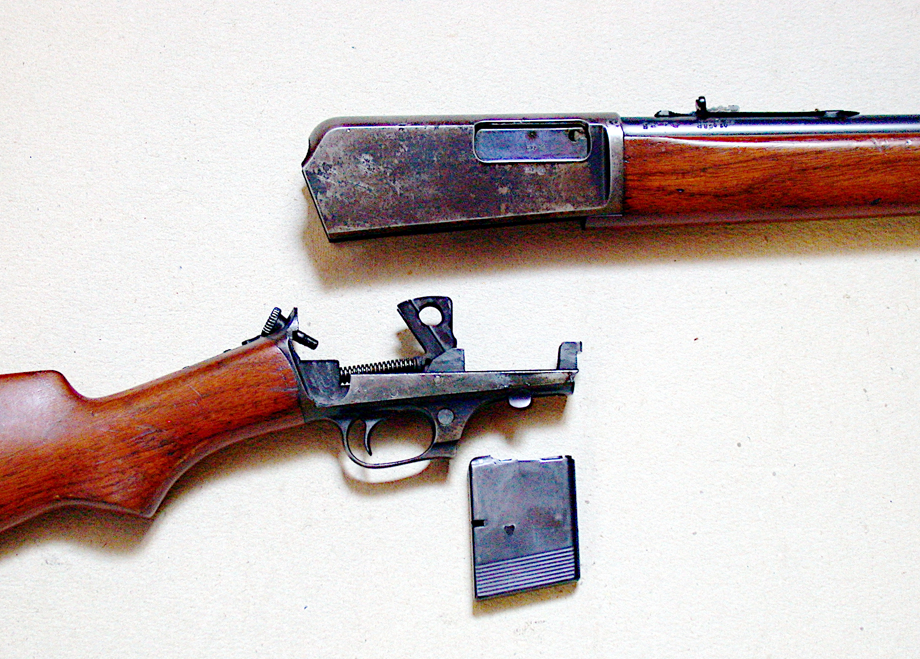 Winchester Mod 05 Self Loading Rifle, dismounted